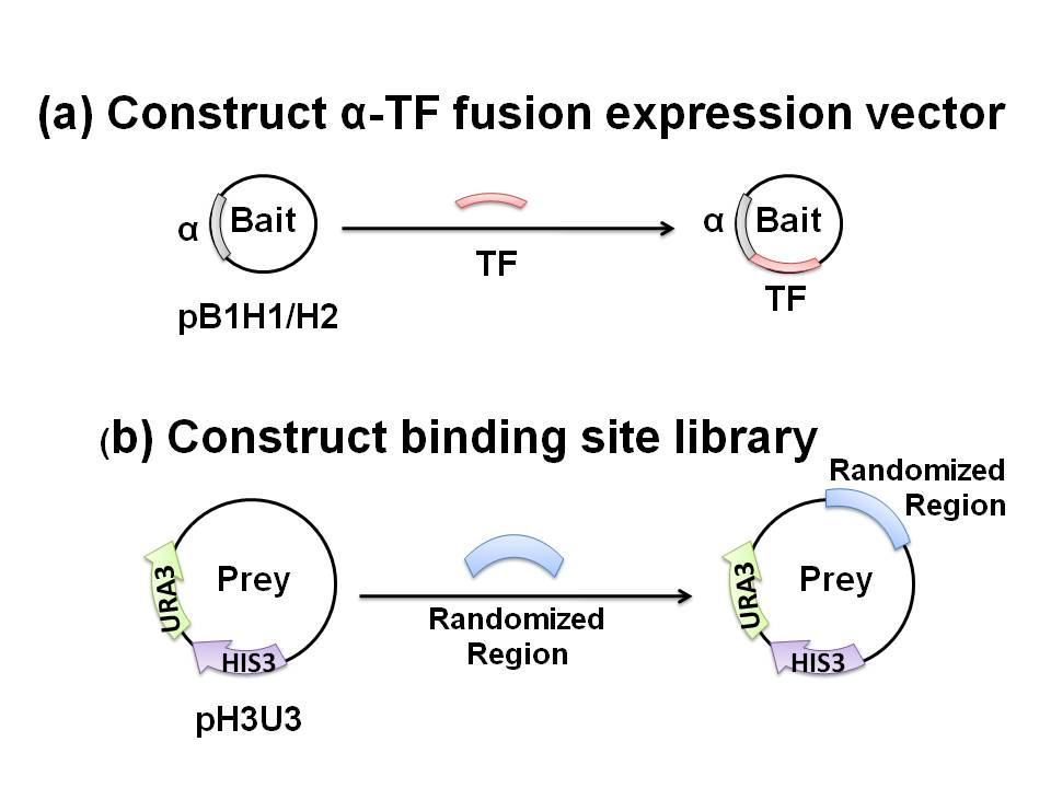 B1H